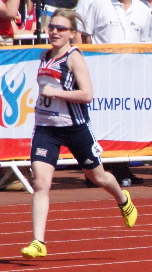 Katrina Hart, female sprinter in the T37 class.